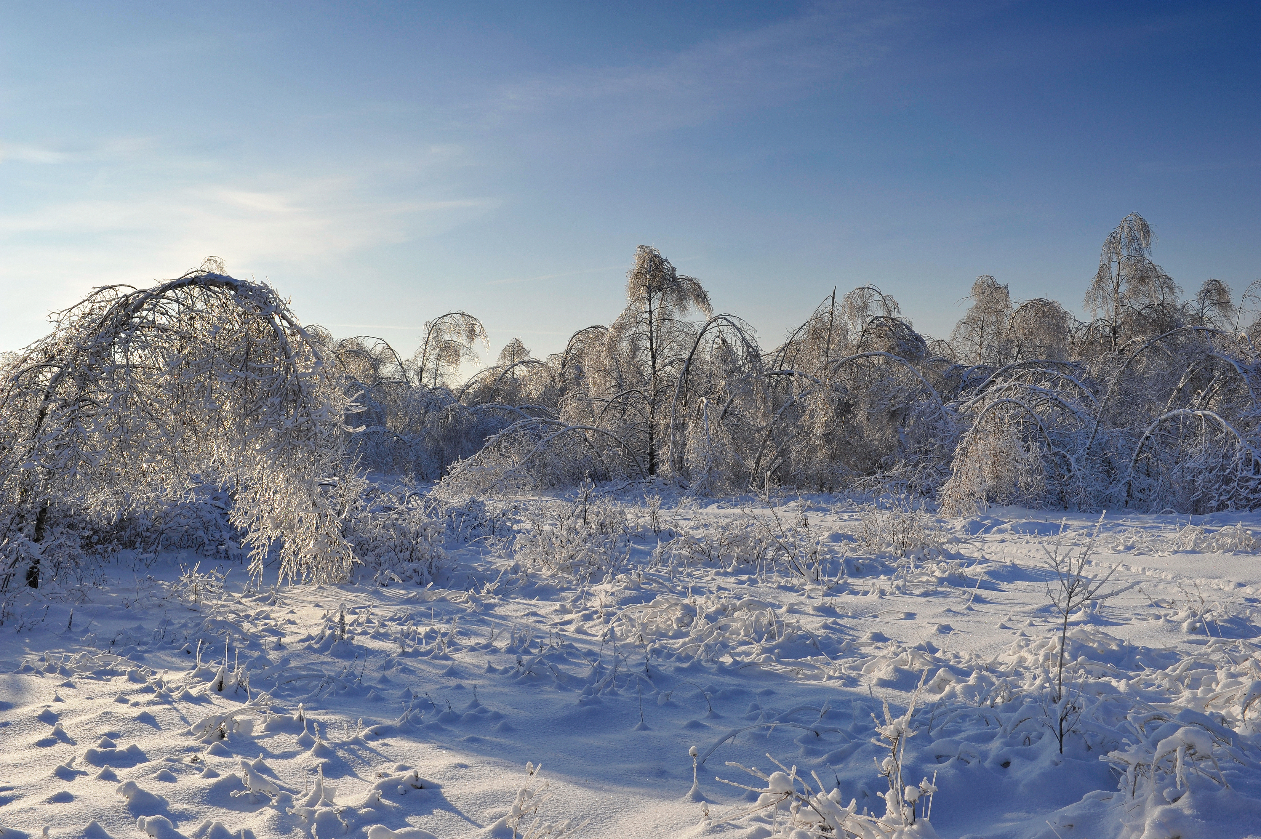 Ice forest near Moskow.